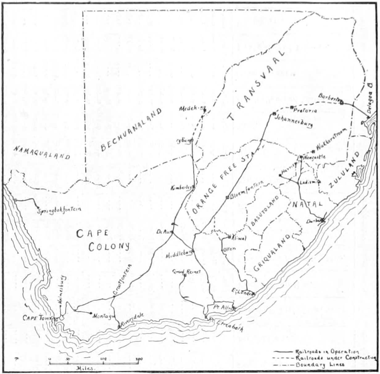 Rail map of South Africa, 1892 The map seems fairly accurate, with one exception. The line shown from Grootfontein to Riversdale doesn't exist and never did. Montagu was never reached either. Riversdale was eventually reached by the New Cape Central Railway (NCCR) line from Worcester via Roodewal (Ashton, near Montagu) and Swellendam to Riversdale and on to Mosselbaai.